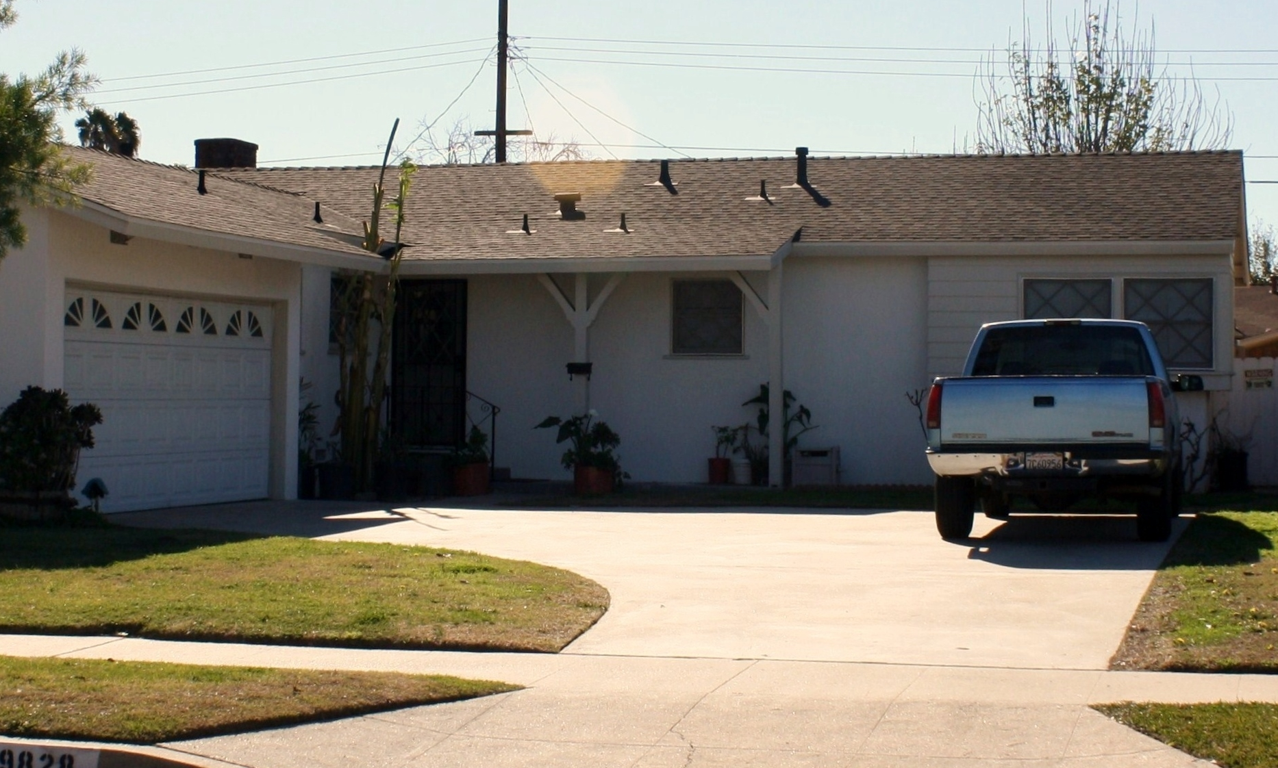 19828 Valerio St (in film it was "S. Almond Ave"), Winnetka, Los Angeles, California, USA. From the 1991 Sci-Fi thriller Terminator 2, this private residence in the city of Winnetka was the location of John Conner's home where he lived with his foster parents. This home is located at 19828 Valerio St, Winnetka.